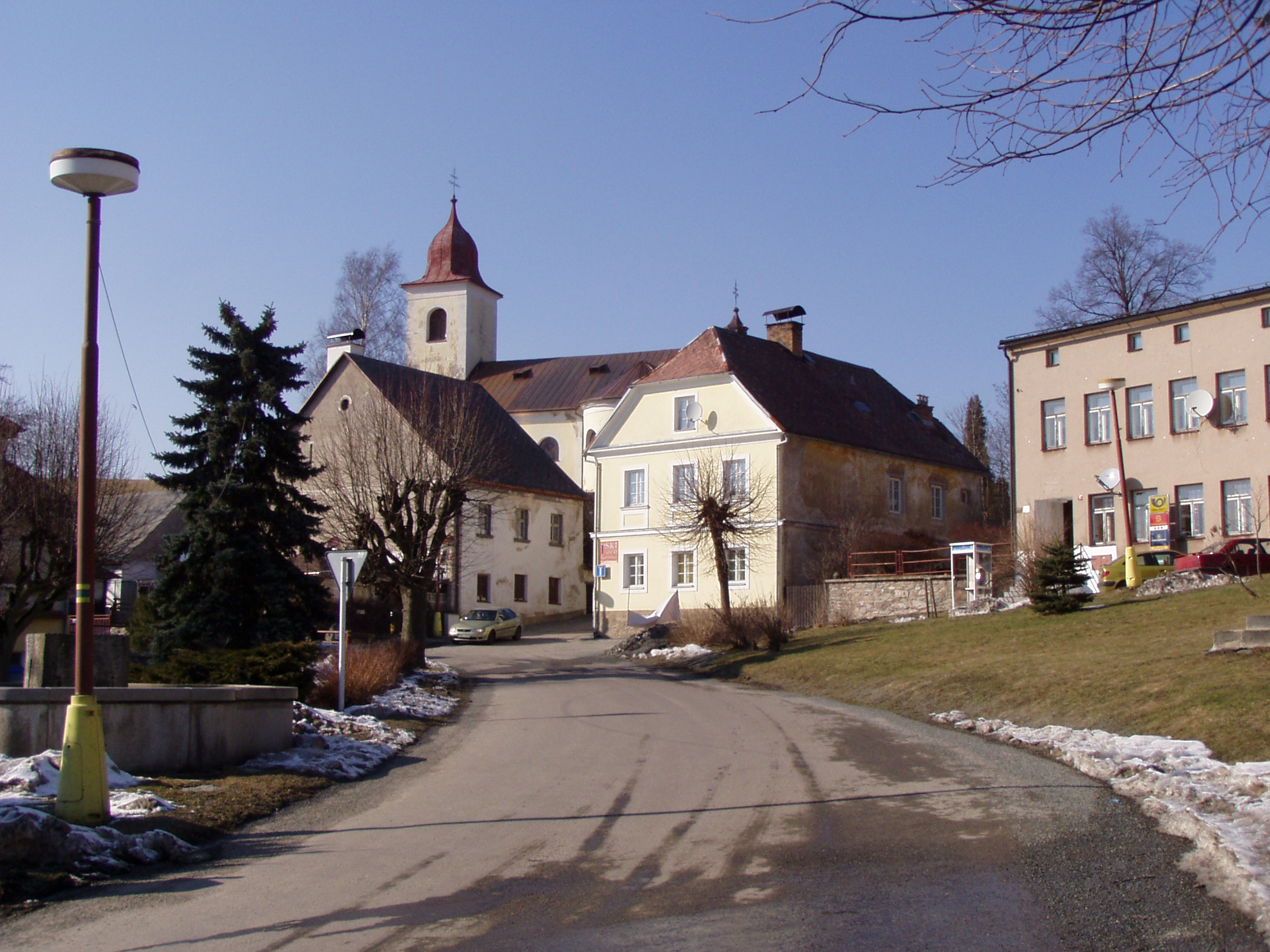 Church of Saint Mary Magdalene (Olešnice v Orlických horách)